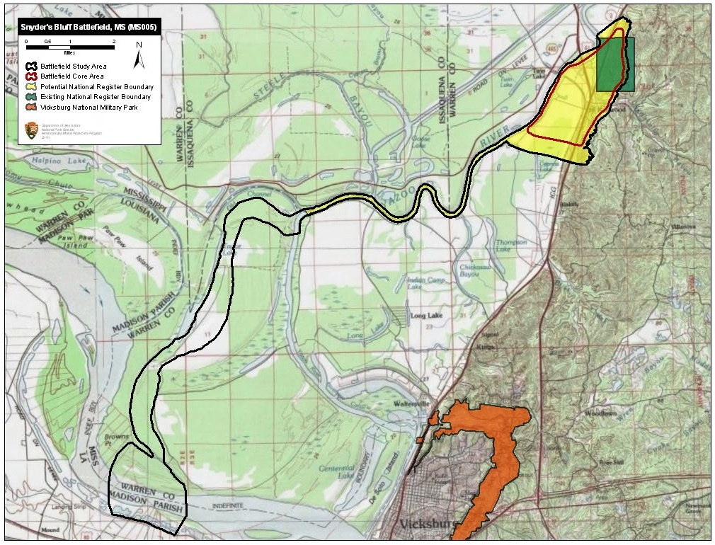 Map of battlefield core and study areas. The revised Study Area includes the historic route of the Yazoo River, which served as the route of approach and retreat for the Federal Navy between the Mississippi River and Snyder’s Bluff. The Study Area was also expanded to the east and north to include the entire length of the Confederate line. The Core Area adjustments reflect the range and sweep of the guns employed by Confederate defenders and the Federal Navy. The revised Core Area also includes the positions of Confederate batteries that fired down the Yazoo River at the Federal flotilla.